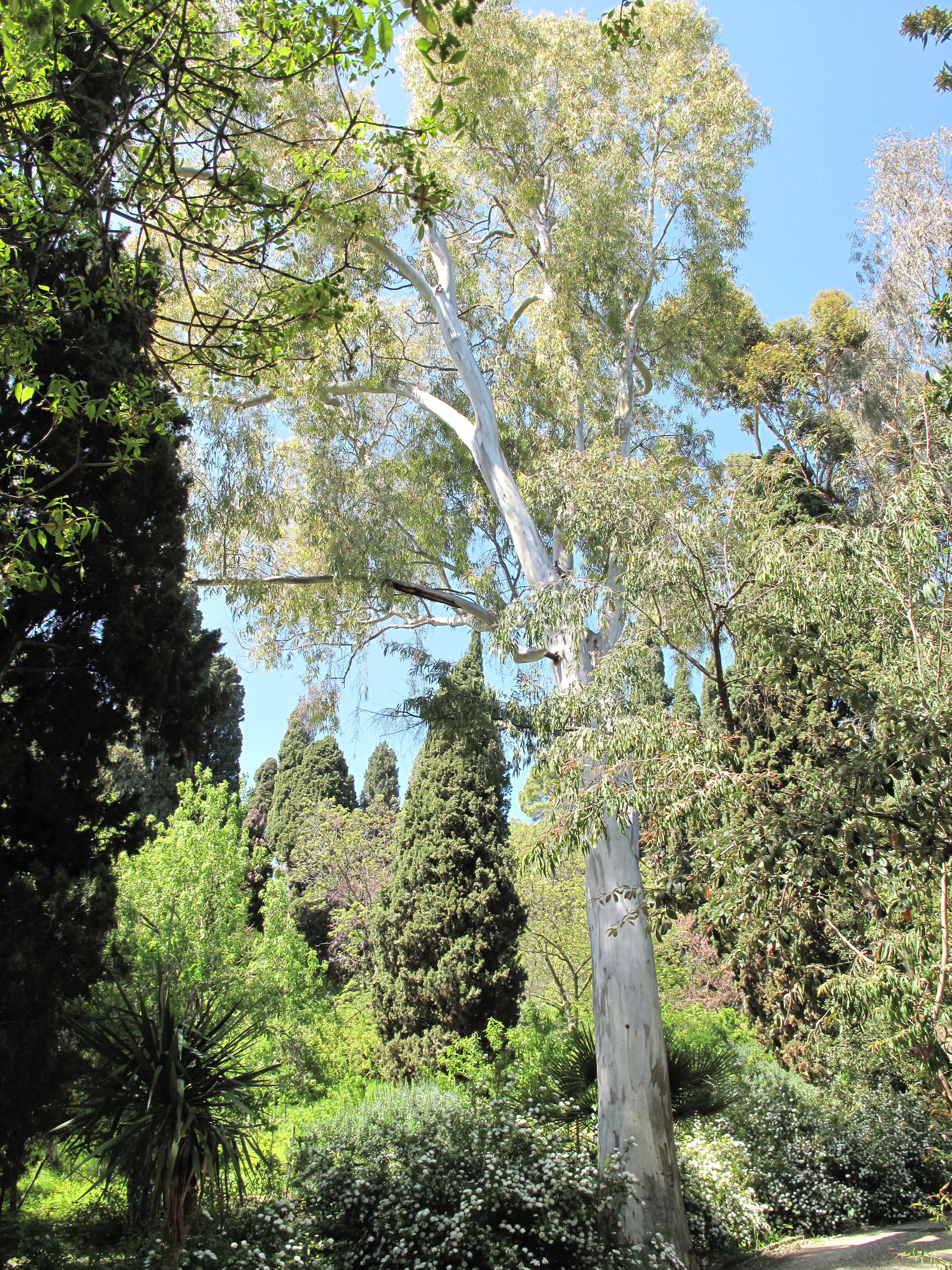 Eucalyptus camaldulensis in the gardens of the villa Hanbury (Ventimiglia, Italy). Identified by its botanic label.